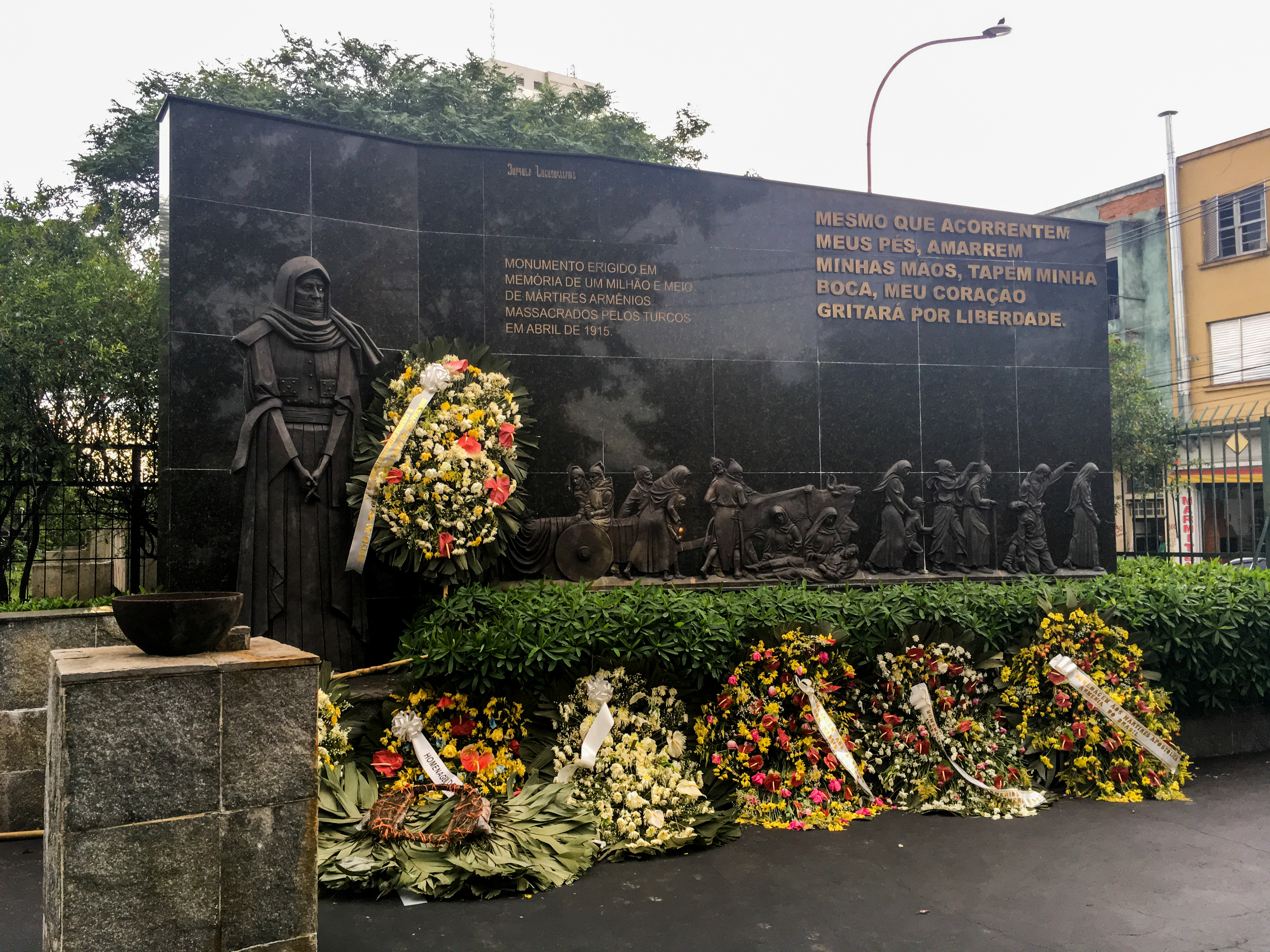 Monument to the Victims of the Armenian Genocide, São Paulo, Brazil.